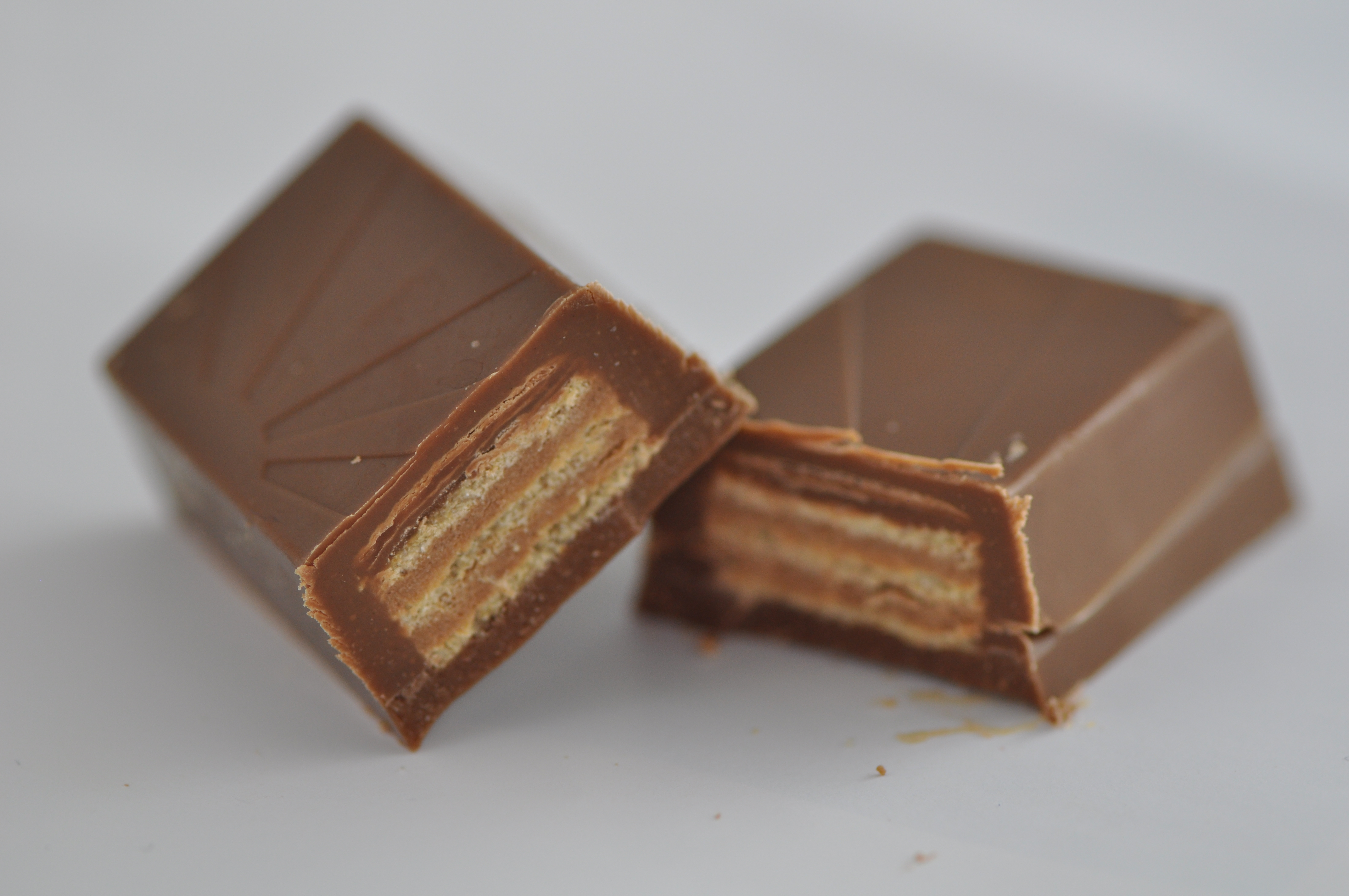 "Sportlunch", a wafer chocolate bar from Cloetta.